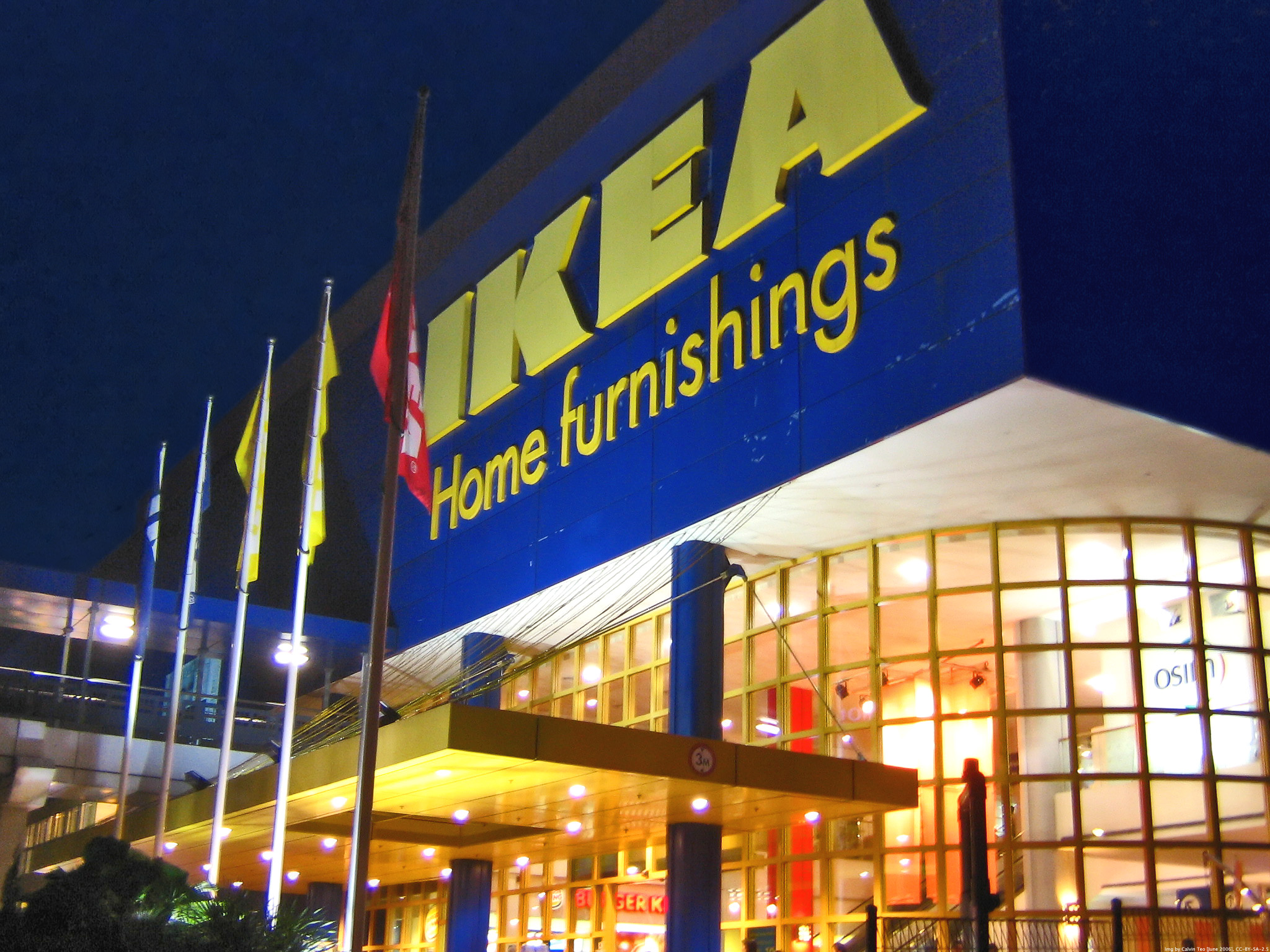 The IKEA Store in Queenstown, Singapore, resembling a large blue box.